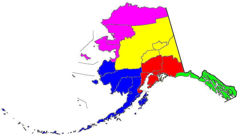 There is no official source defining the regions of Alaska, but several regional names are in common use. This map diagrams those regions in terms of the boundaries of existing Alaska boroughs and census areas. The regions are Northern Alaska (magenta), Interior Alaska (yellow), Southwestern Alaska (Blue), South-Central Alaska (red), and Southeastern Alaska (green) Map of the boroughs and census areas of the U.S. state of Alaska, divided for the purpose of sorting Alaska geography stubs. Map is based on the regions shown at this image from a state website.